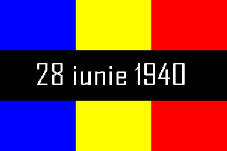 This flag was symbolically used by the Moldavian passive underground resistance during 1945-1989.